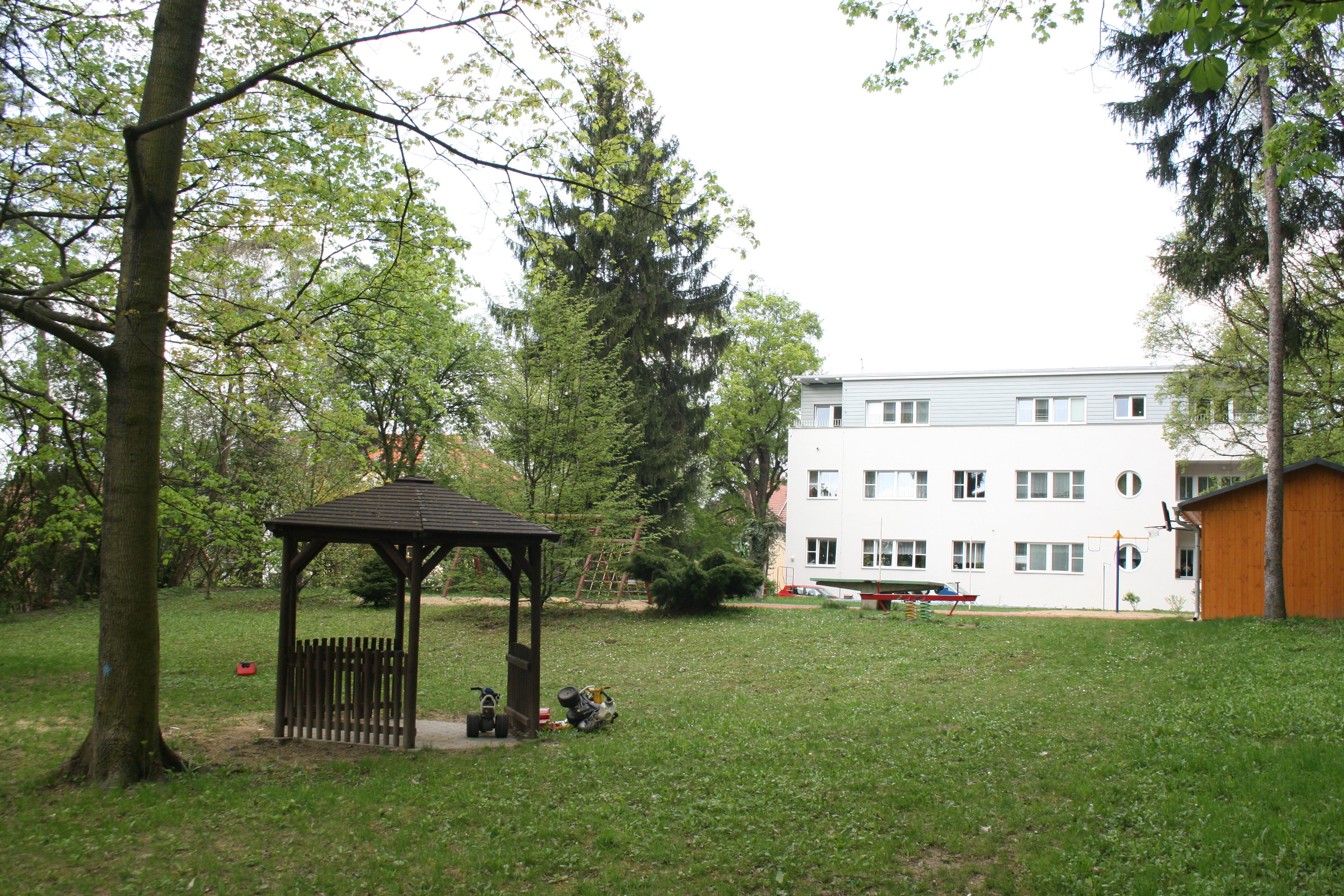 Children's house Dagmar, Brno, Czech Republic. Česky: Funkcionalistická budova Dětského domova Dagmar od architekta Bohuslava Fuchse (zbudován 1928, po rekonstrukci 2006). Zadní pohled ze zahrady. Brno-Žabovřesky.